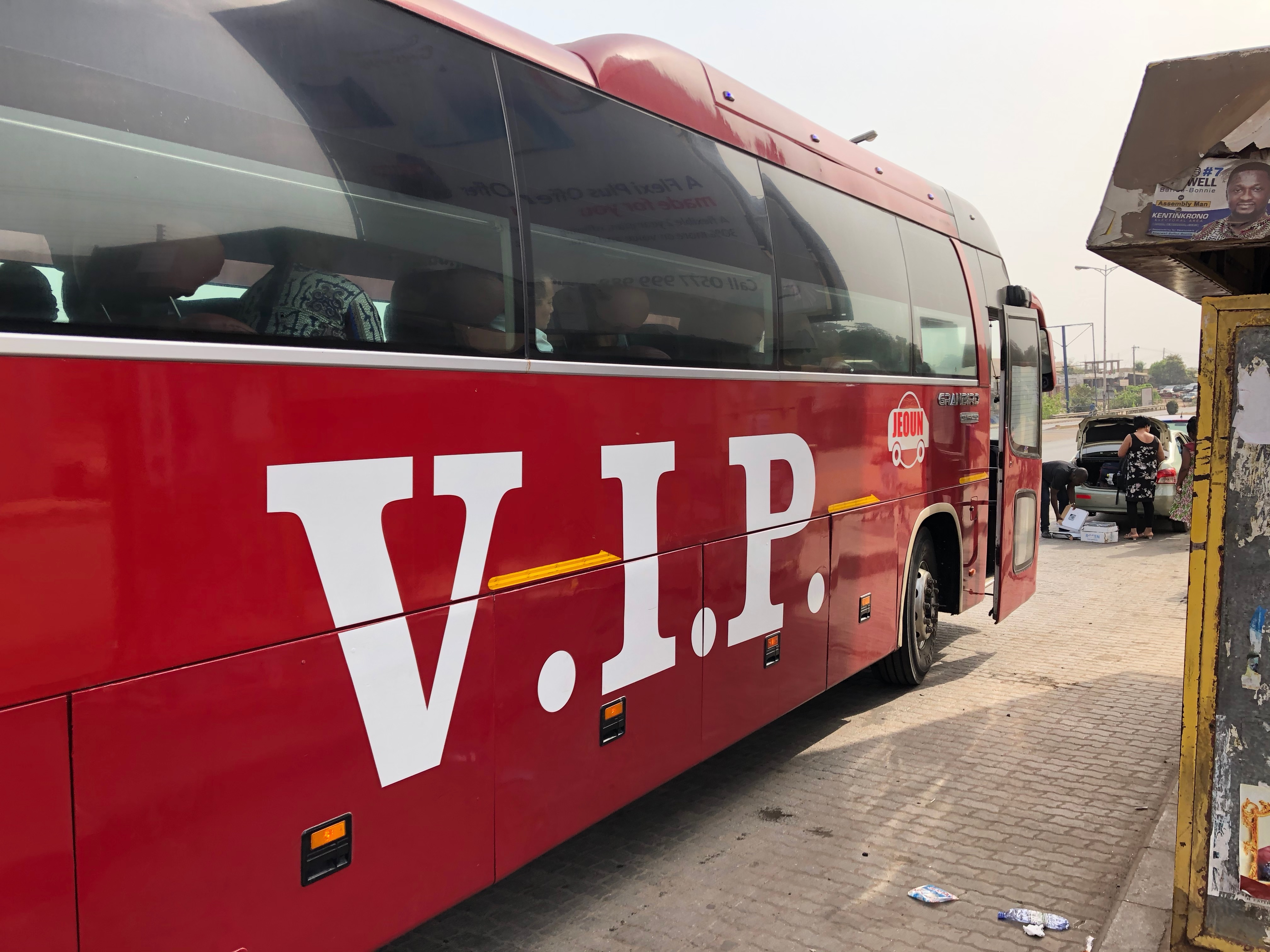 This is an image with the theme "Africa on the Move or Transport" from: Ghana